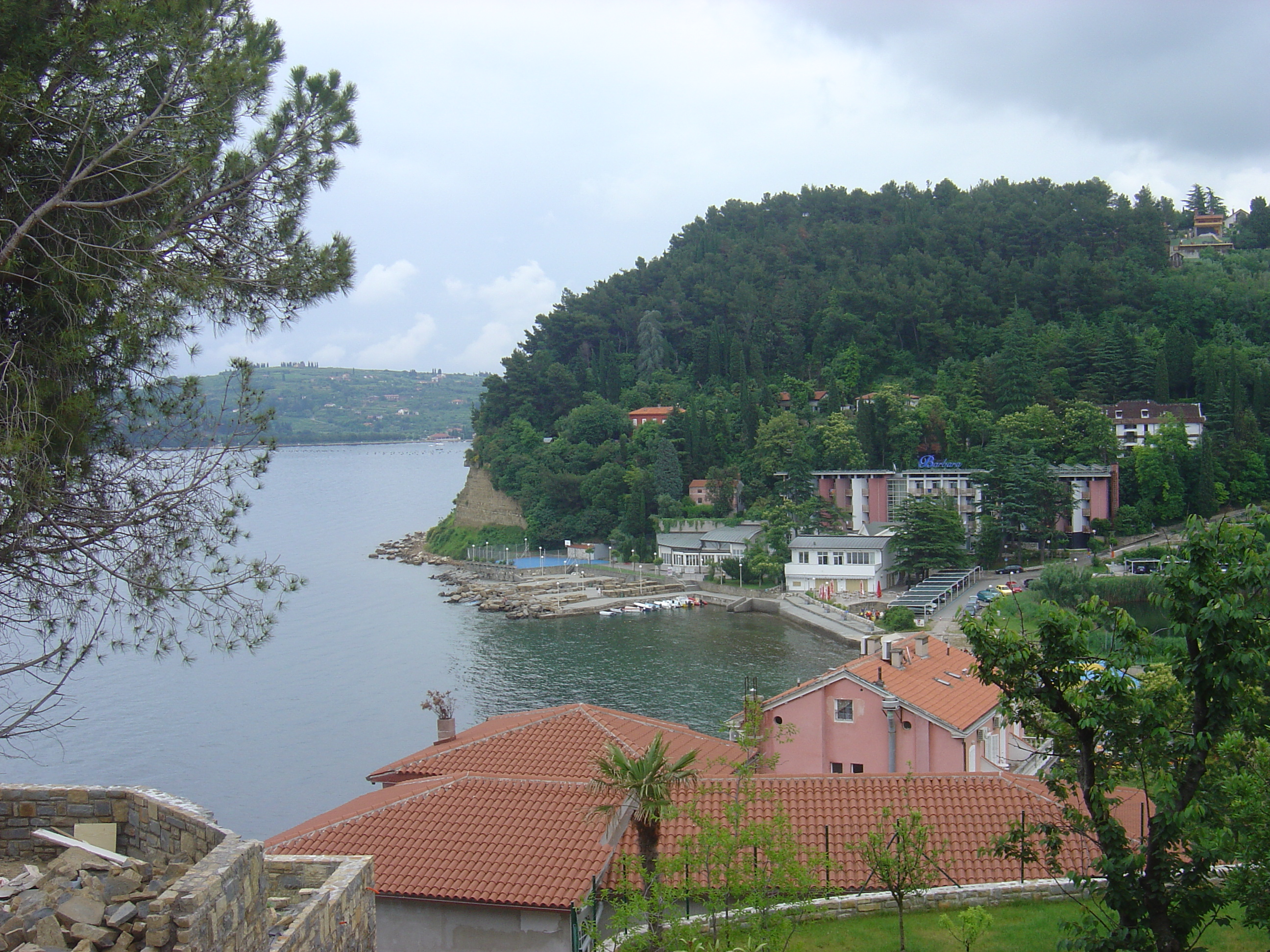 Fiesa, Slovenia